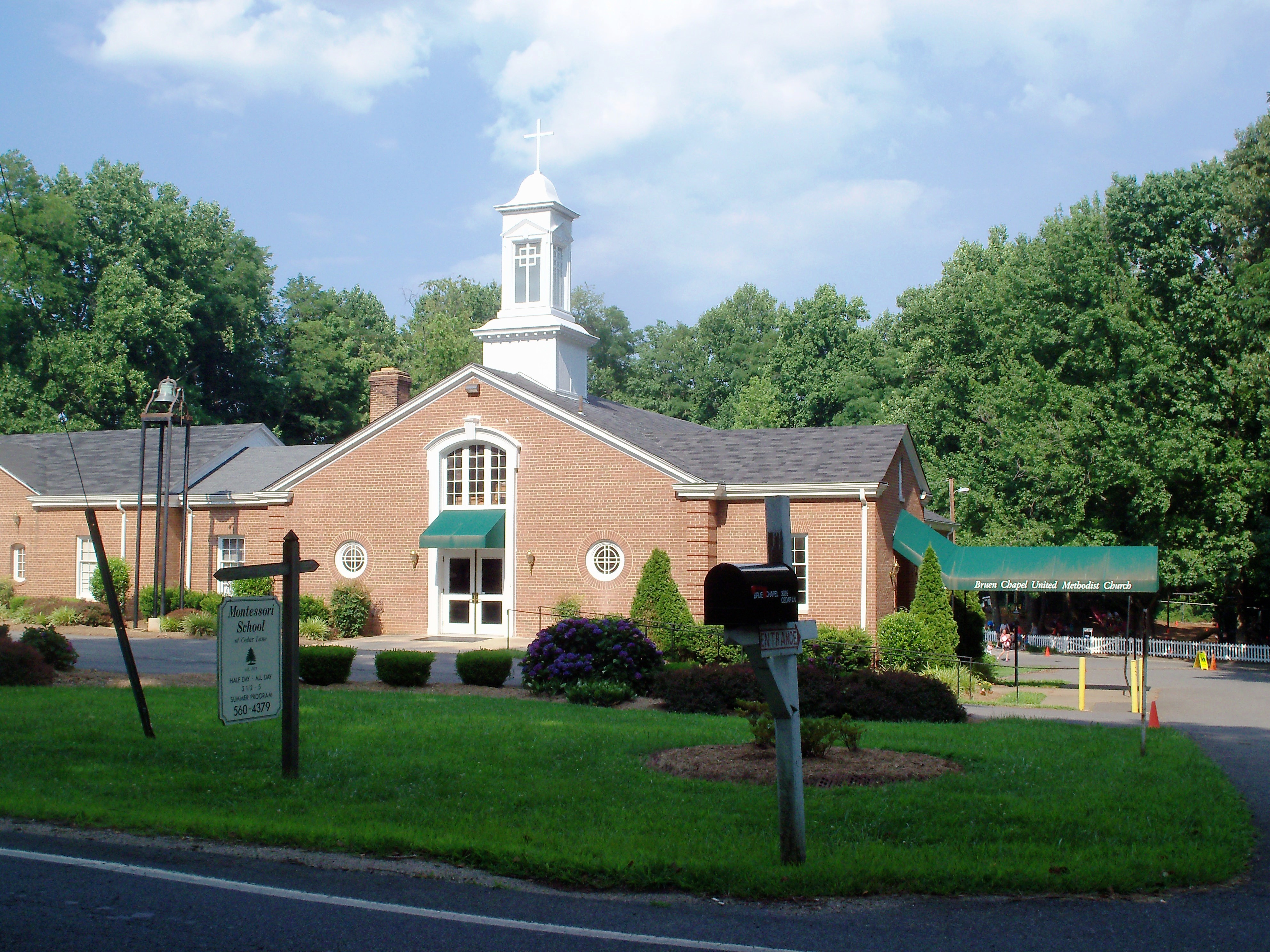 Montessori School-Cedar Lane